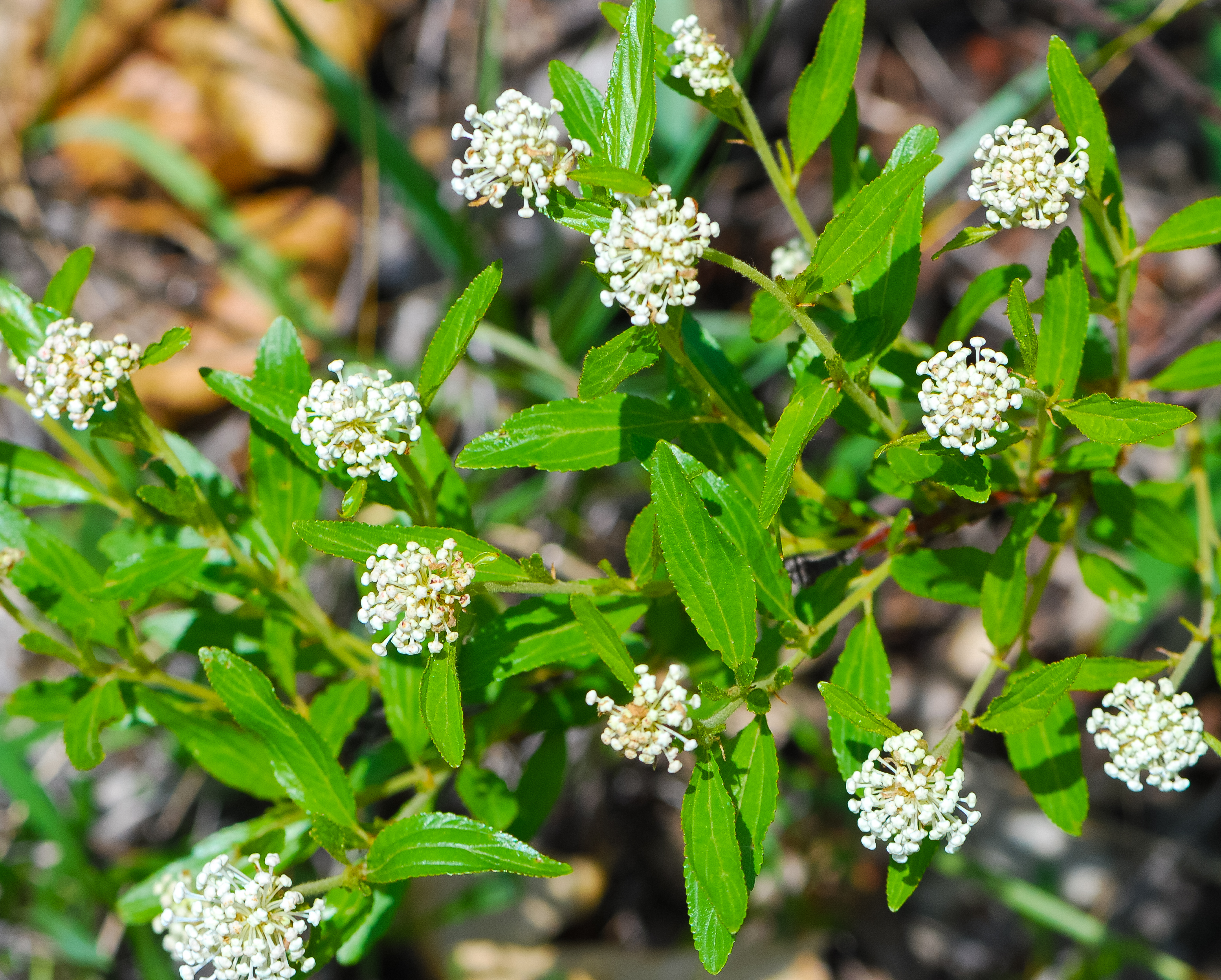 Inland New Jersey Tea (Ceanothus herbaceus Holland Sand Prairie Wisconsin State Natural Area #553 La Crosse County